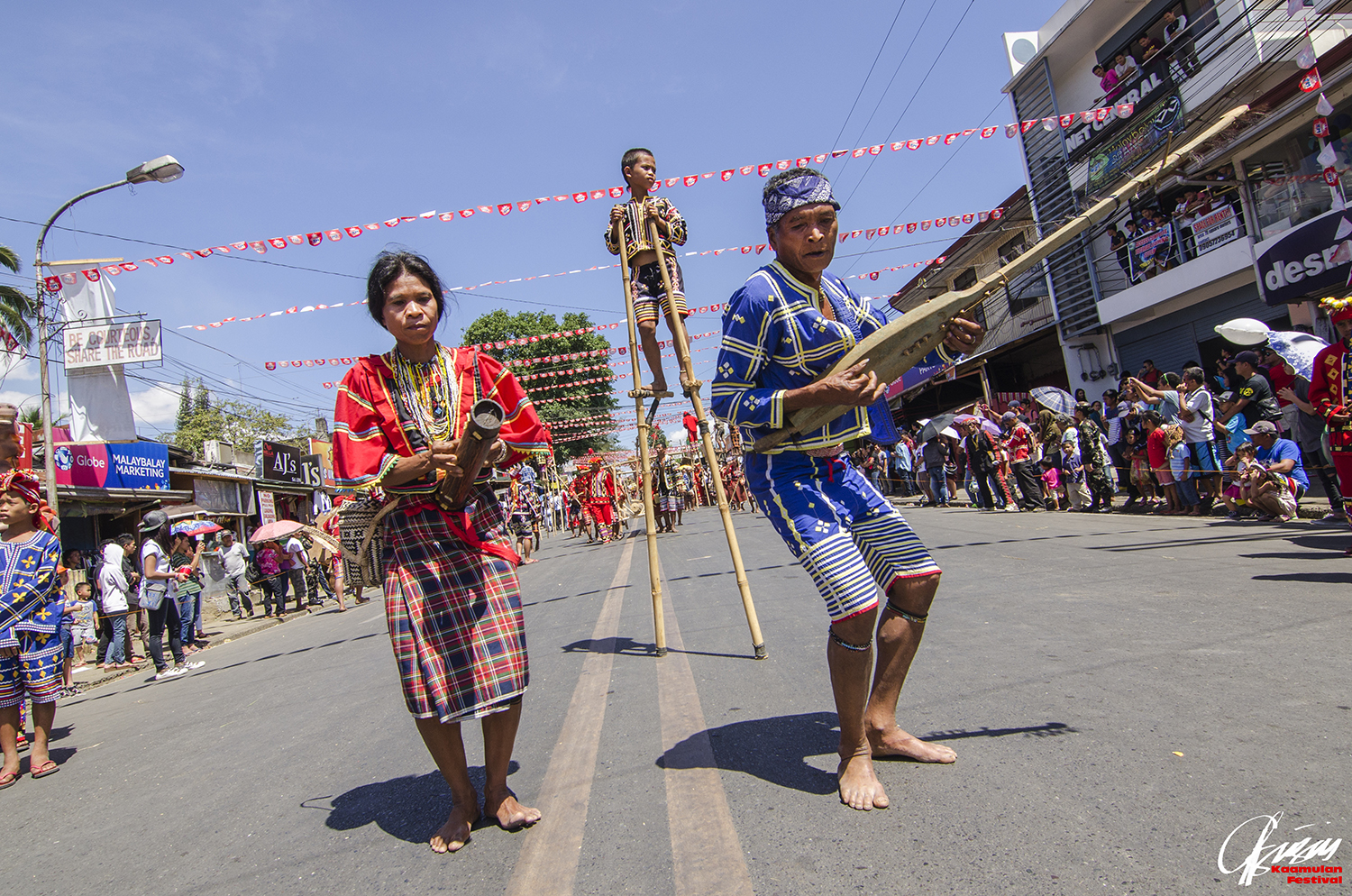 Kaamulan Festival (from the local dialect “amul” meaning "to gather”) claims to be the only authentic ethnic/cultural festival in the country and celebrated annually in Malaybalay City, Bukidnon. Be enthralled with Mindanaon culture in a day - Kaamulan should be in your bucket list! Philippine polycordal bamboo-tube zither (possibly a S'ludoy) (left), and Kutiyapi (boat lute)